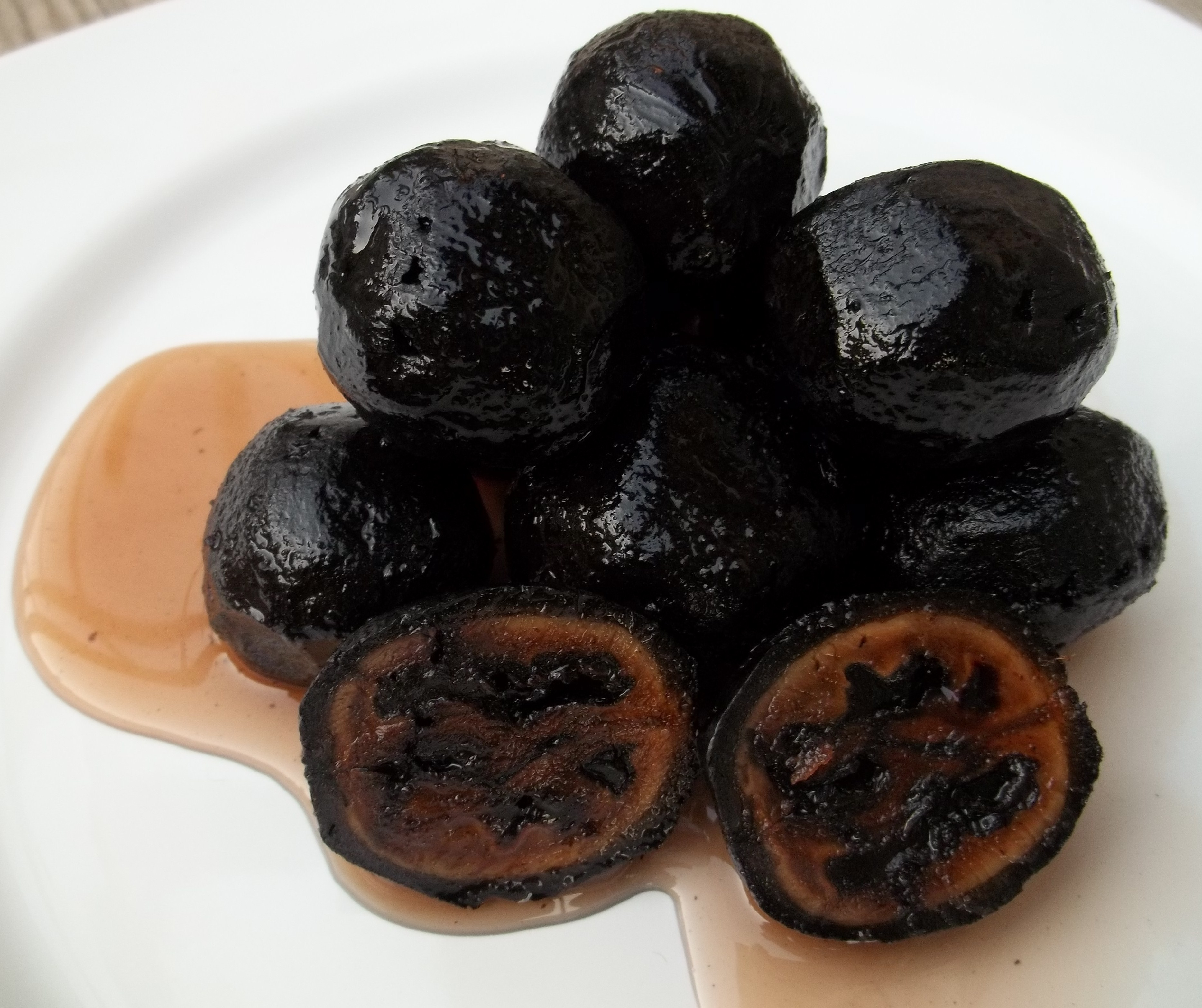 Мurabba made of walnuts. Common in Caucasian cuisine.